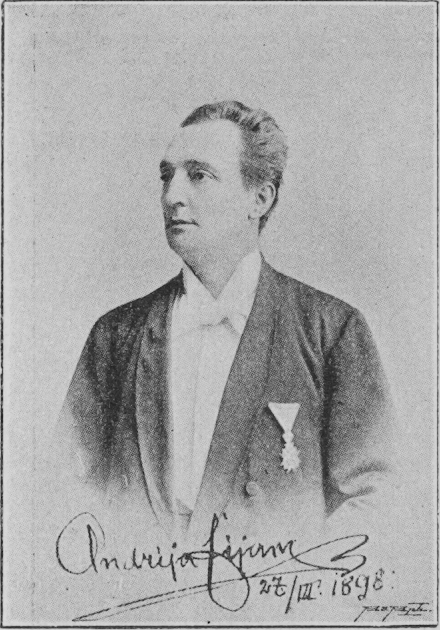 Signed portrait of Andrija Fijan (1851 - 1911), Croatian actor.